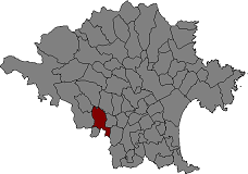 Location of Navata in Alt Empordà